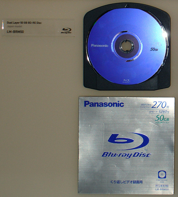 Blu-ray Disc LM-BRM50 (Panasonic). Dual layer discs BD-RE with 50GB capacity and cartridges. Taken on the consumer electronics fair IFA2005 in Berlin.